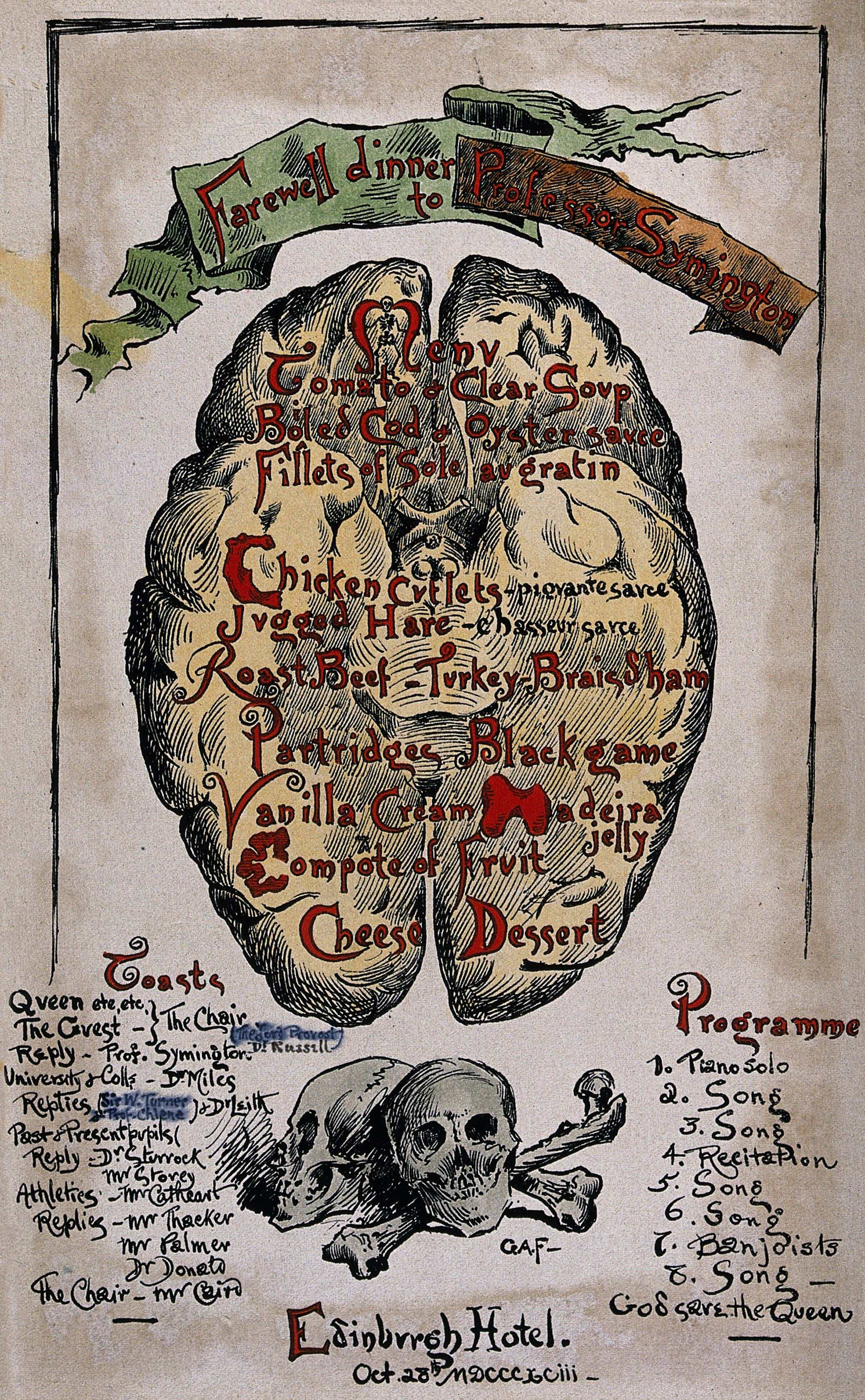 Illustrated menu card for the farewell dinner to Professor Johnson Symington. Coloured woodcut by George Algernon Fothergill, 1893. Iconographic Collections Keywords: George Algernon Fothergill; Johnson Symington